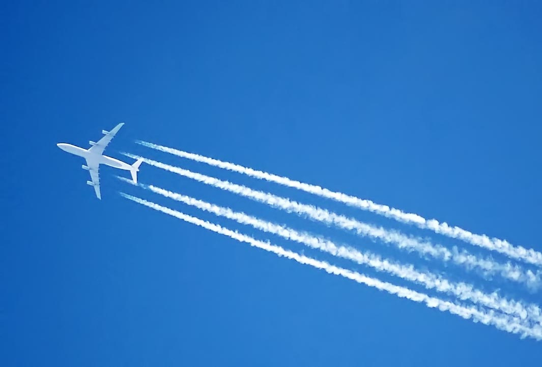 The contrails of an Airbus A340 jet, over London, England. Photographed by Adrian Pingstone in March 2007 and placed in the public domain.